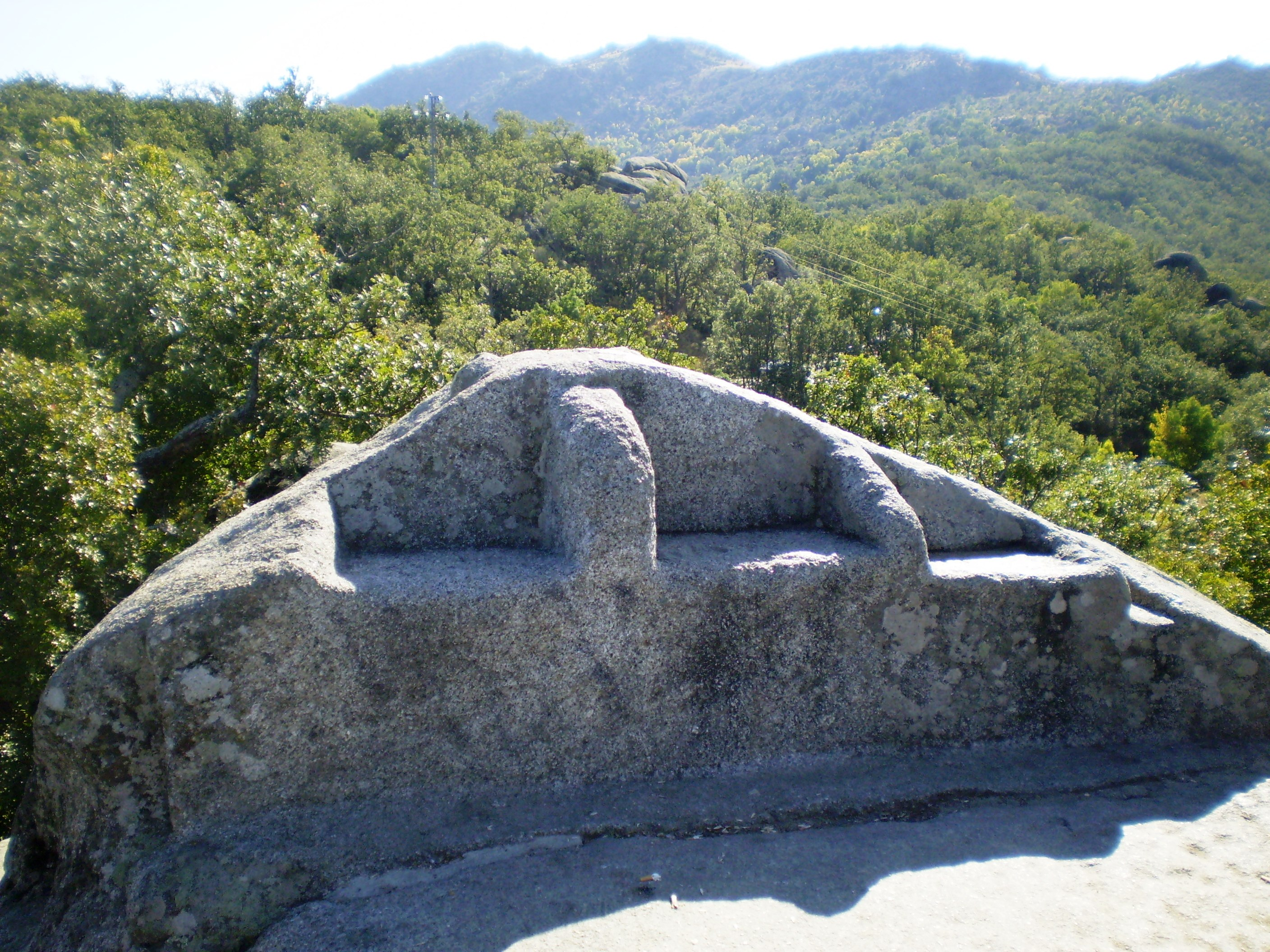 Silla de Felipe II (Philip II Seat). San Lorenzo de El Escorial, Community of Madrid, Spain